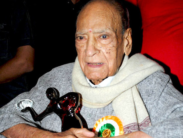 Actor A K Hangal honoured at the 14th Hira Manik Awards in 2011.